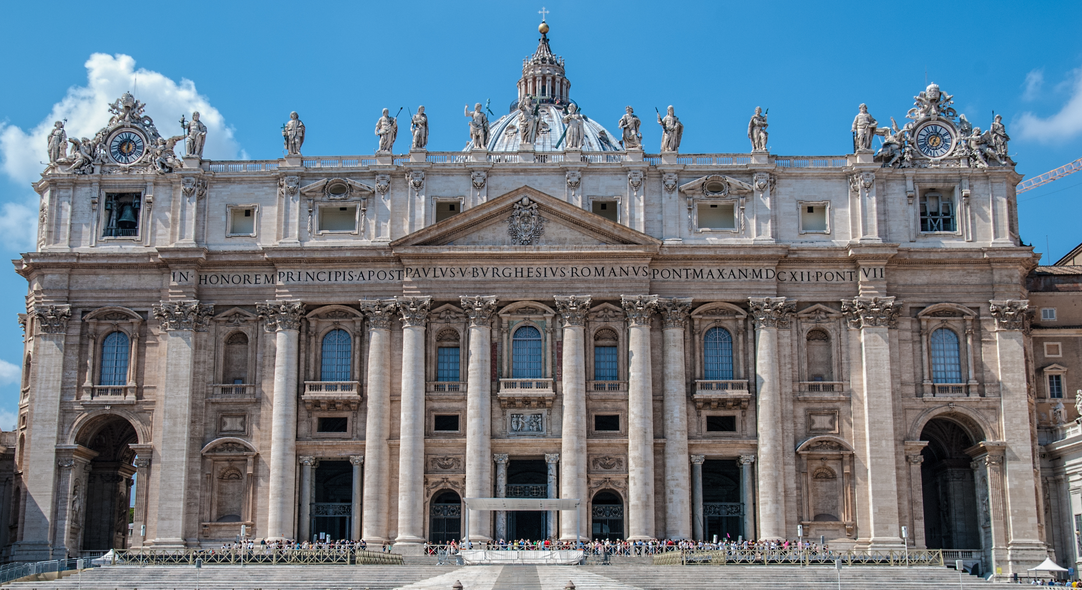 Basilica di San Pietro - this photo featured here